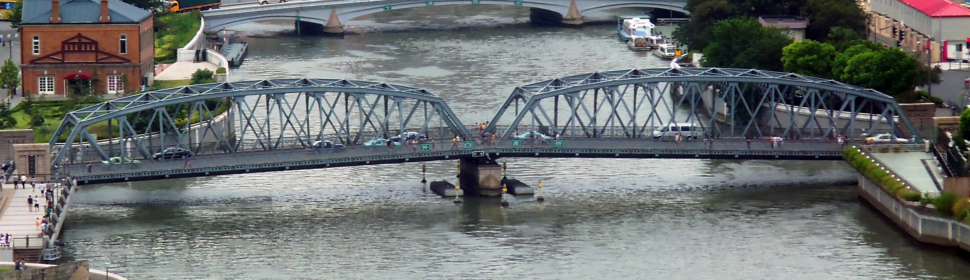 Waibaidu Bridge seen from the 90 m observation deck of Oriental Pearl Tower